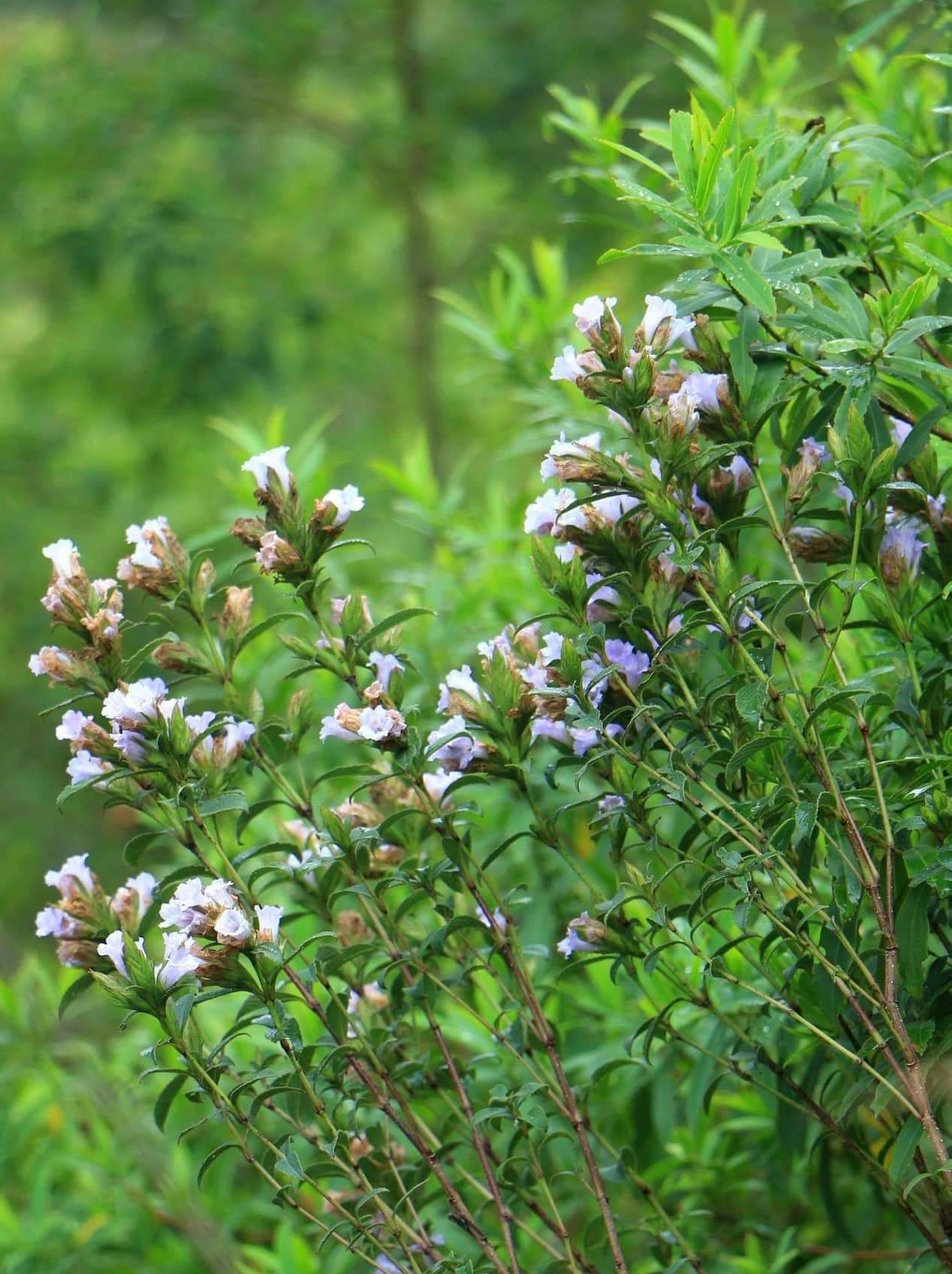 Strobilanthes kunthianus